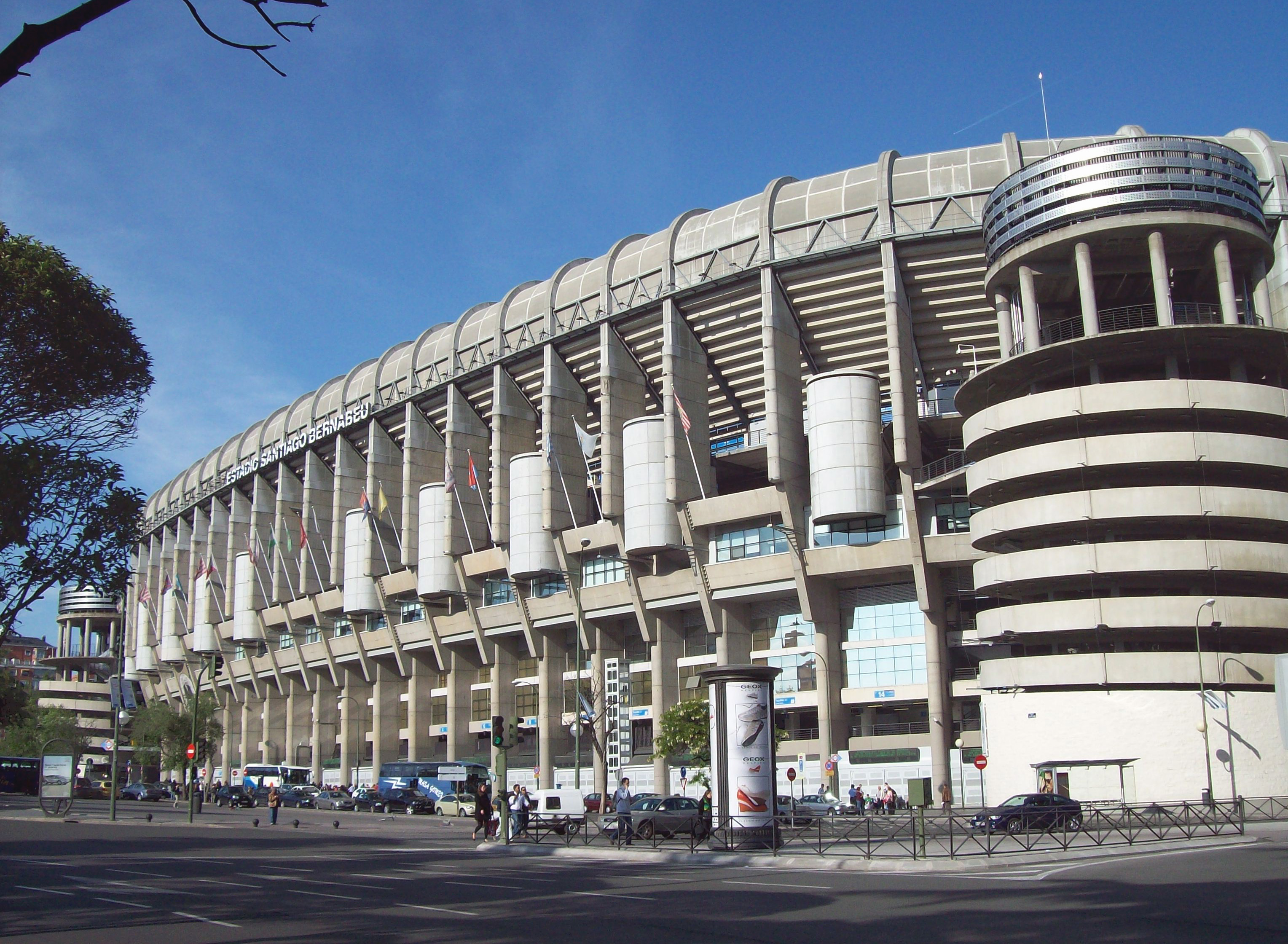 West façade (Paseo de la Castellana, avenue) of Santiago Bernabéu Stadium in Madrid (Spain).